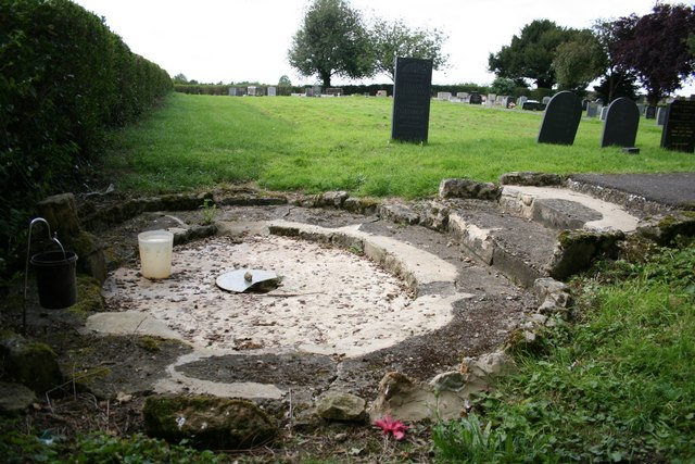 St.Gilbert's well Ancient well in St.Andrew's churchyard, associated with St.Gilbert of Sempringham